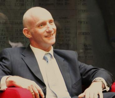 On Australia Day 2011, Deakin University and ABC Radio National present highlights from the forum 'Yes we're still a monarchy, but it is not my fault'. The speakers were Professor Marian Simms, Greg Barns and Professor Damien Kingsbury. The moderator was Warwick Hadfield.